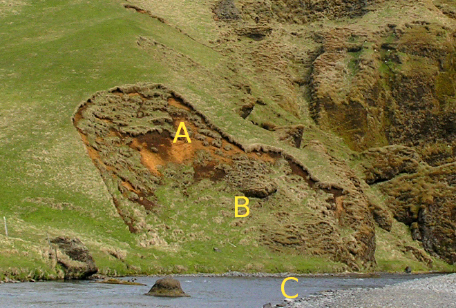 Iceland, Skogafoss, labeled (A,B,C)